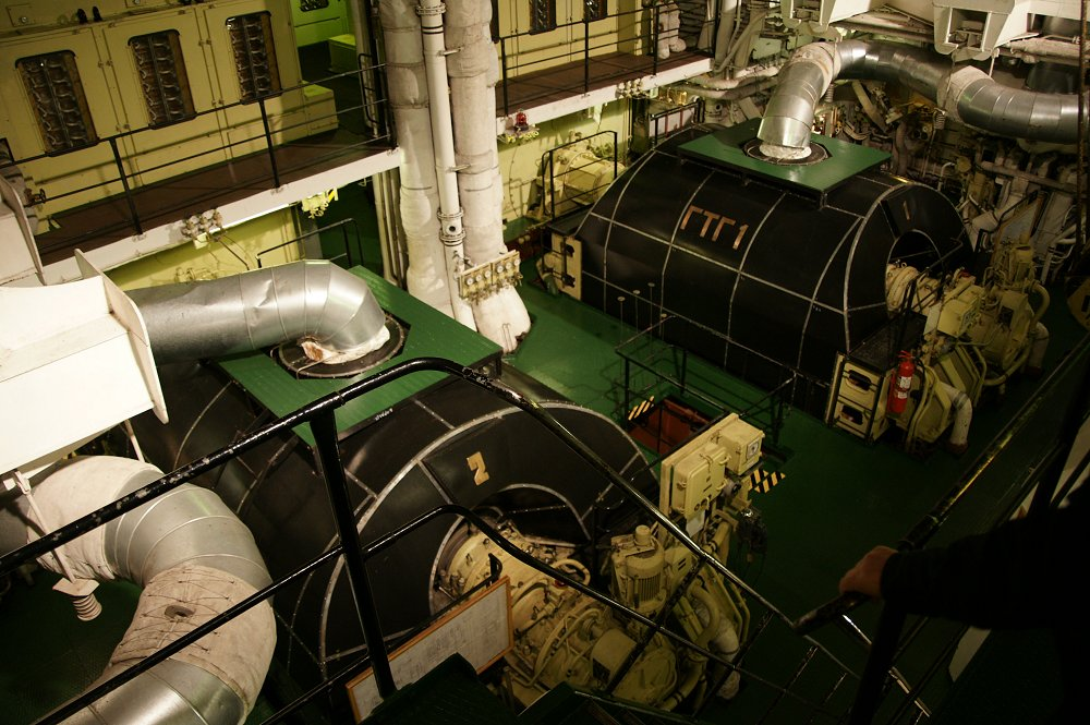 Two steam turbines of nuclear i/b '50 let Pobedy' (Russia)